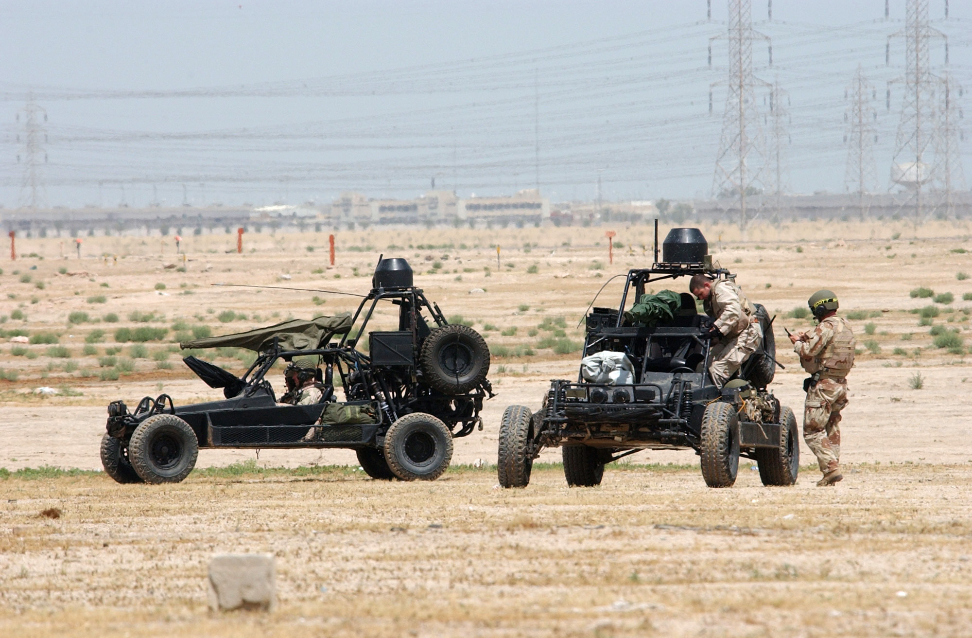 Camp Doha, Kuwait (Feb. 13, 2002) - U.S. Navy SEALs (SEa, Air, Land) operate Desert Patrol Vehicles (DPV) while preparing for an upcoming mission. Each “Dune Buggy" is outfitted with complex communication and weapon systems designed for the harsh desert terrain. (OEF). U.S. Navy photo by Photographer's Mate 1st Class Arlo Abrahamson. (RELEASED)